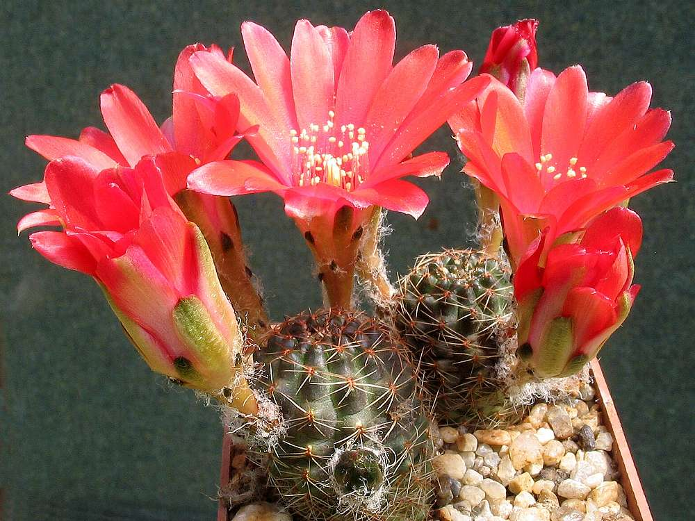 Rebutia zecheri Rausch - cultivated plant (seed marked WR650) from own collection.